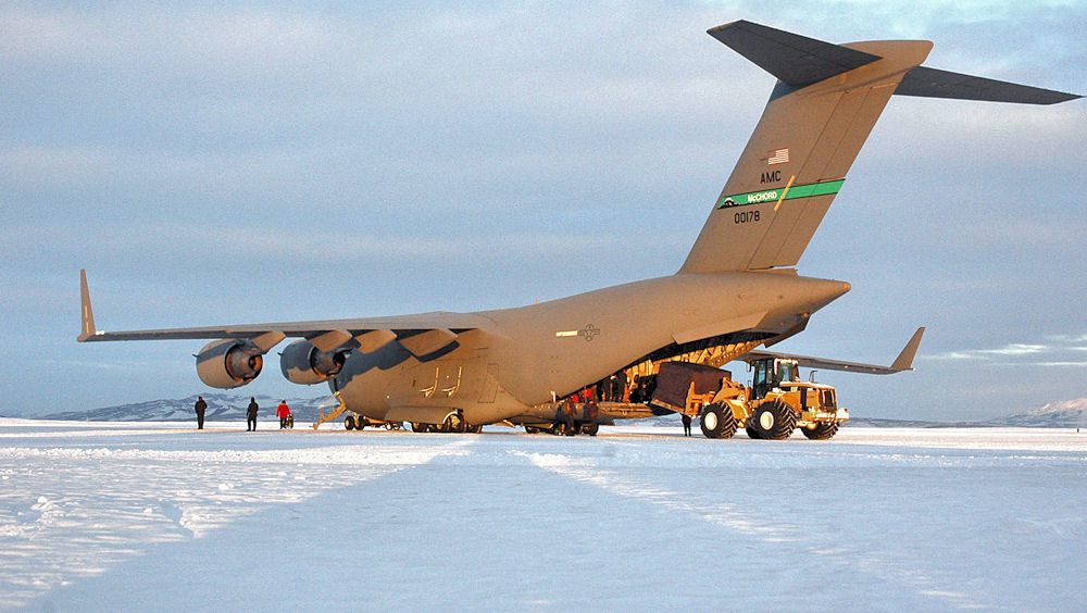 A C-17 Globemaster III from McChord Air Force Base, Wash., is loaded with cargo at McMurdo Station, Antarctica. A Reserve and active-duty Airmen from the 446th and 62nd Airlift Wings flew the late season Operation Deep Freeze mission April 17